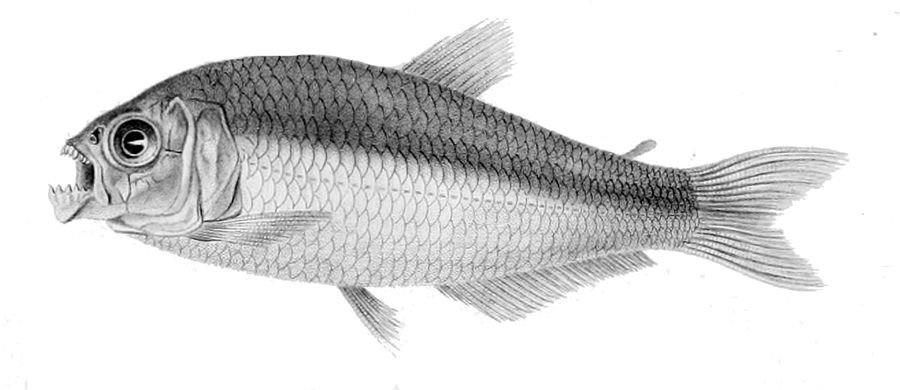 Bryconamericus peruanus